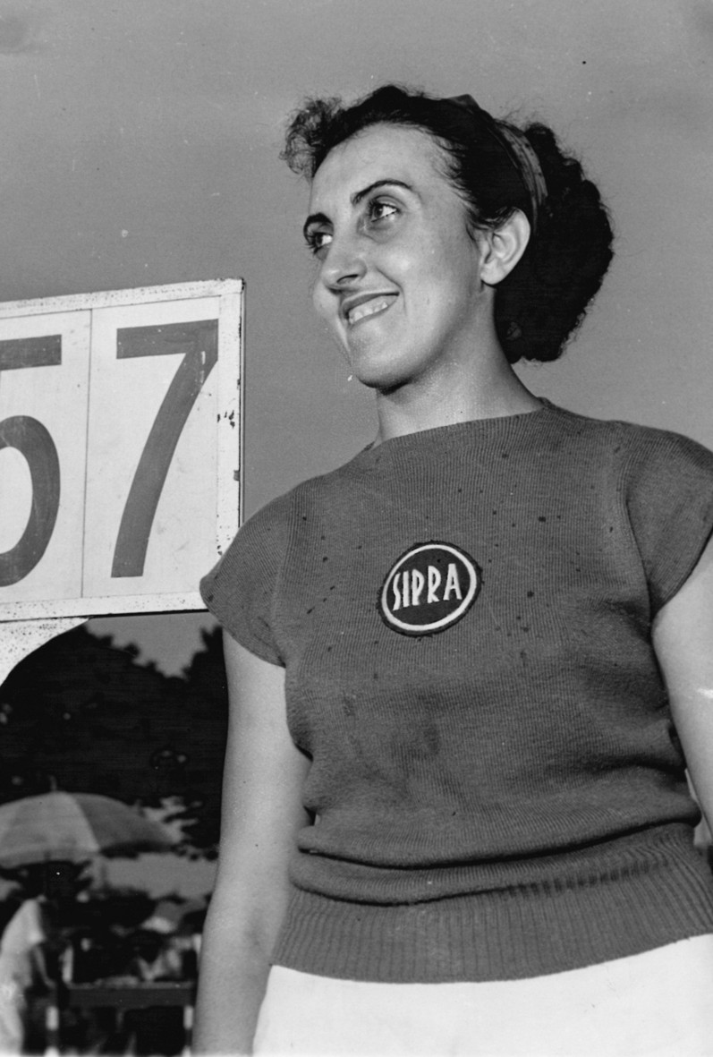 Ester Palmesino, Padova 1951/06/17, Campionati di Società